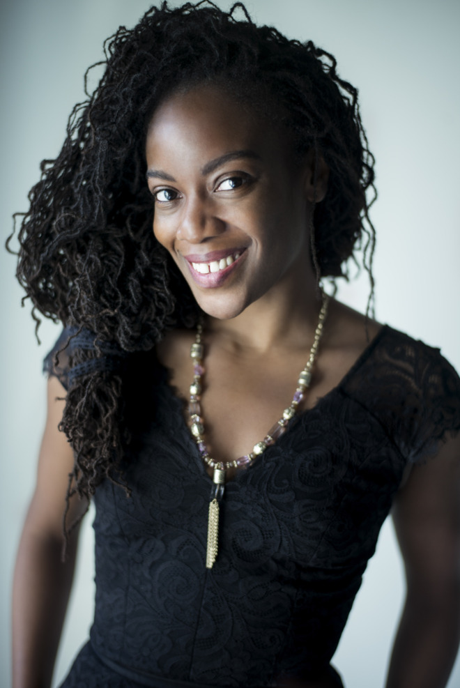 Chika Oduah is a Nigerian-American journalist.